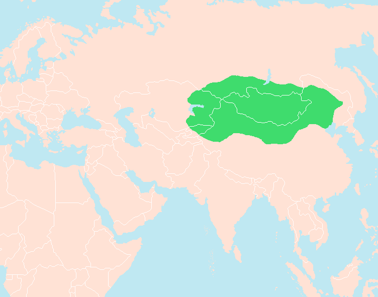 Xiongnu empire 1st century BC according to Yuri Bregel Historical Atlas of Central Asia